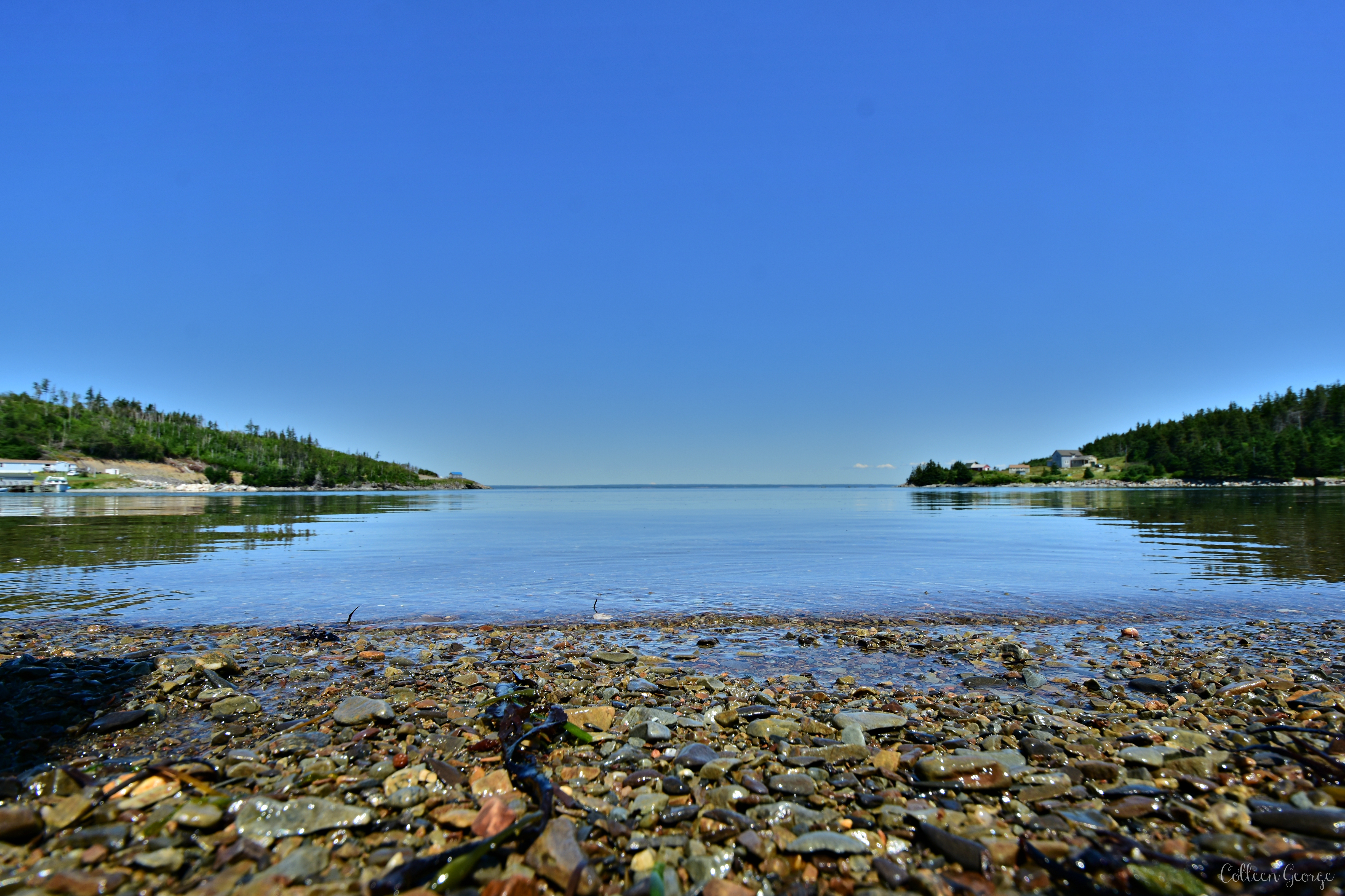 Looking out towards the entrance of Phillips Harbour into Chedabucto Bay.